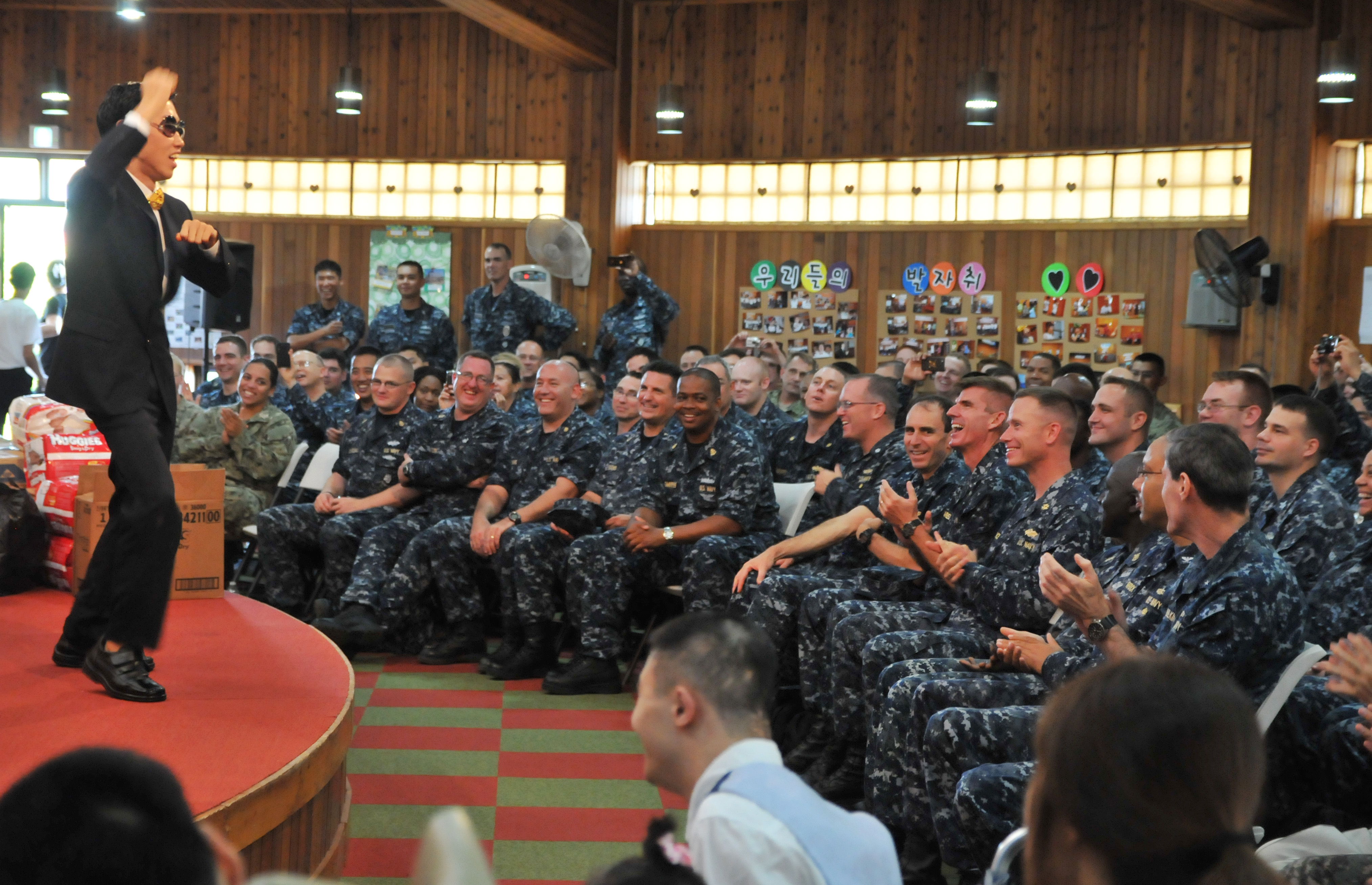 A resident of the Aikwangwon Home and School for the Mentally and Physically Disabled performs the song "Gangnam Style" for 117 active-duty and reserve Sailors during their community service visit.